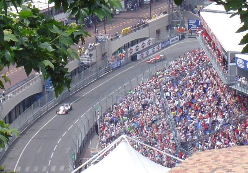 Super Aguri and MF1 Racing at 2006 Monaco GP